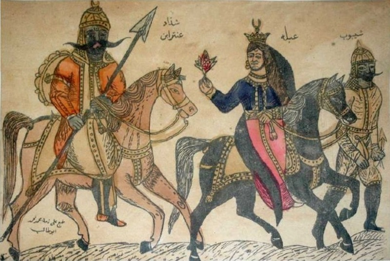 A 19th-century tattooing pattern depicting pre-Islamic Arab hero and poet Antarah ibn Shaddad (left) and his lover Abla (middle) riding horses. The character on the right is called Shayboub. The inscription in the lower left-hand corner indicates that the pattern was printed under the auspices of Muhammad Muhammad Abu Taleb. The original uploader of this image on Flickr stated that it came from the Cairo Anthropological Museum. However, there is no such museum in Cairo. The uploader most likely intended to refer to the Ethnographic Museum ( which is affiliated with the Egyptian Geographic Society.